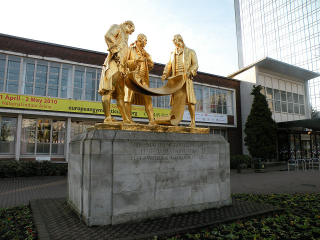 Boulton, Watt and Murdoch. Memorial to the local steam pioneers: Matthew Boulton 1728-1809 James Watt 1736-1819 William Murdoch 1754-1839 inappropriately dressed for tinkering with steam engines. "This memorial unveiled by Sir Percy H Mills Bt. K.B.E. September 14 1956 commemorates the immense conribution made by Boulton, Watt and Murdoch to the industry of Birmingham and of the world. The conception of Richard Wheatley a leather goods manufacturer of this City coupled with his generosity and a contribution by the City Council enabled these statues to be executed by W Bloye, sculptor." In Broad Street with 1754670 behind, right.